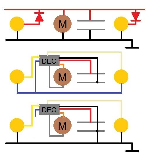 Wirering of a DC locomotion without (above) and with (below) decoder.